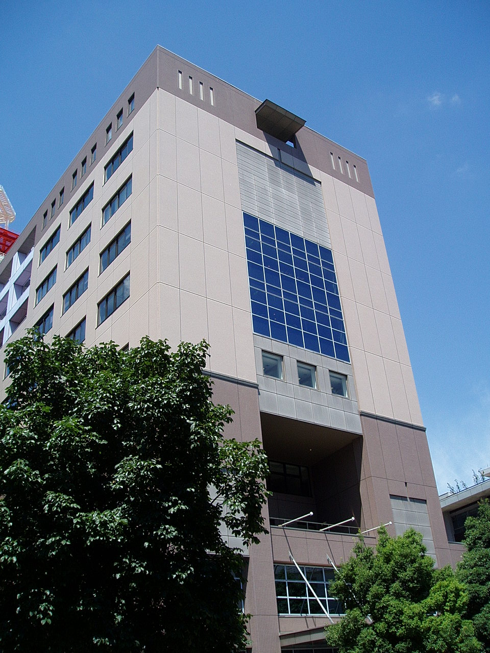 Iwate Medical University Hospital Memorial Heart Center, located in Uchimaru, Morioka, Iwate, Japan.